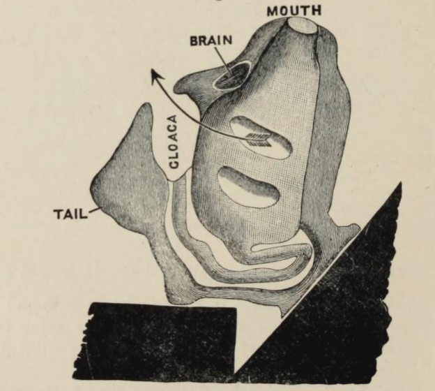 Very young ascidian with only two gill slits.